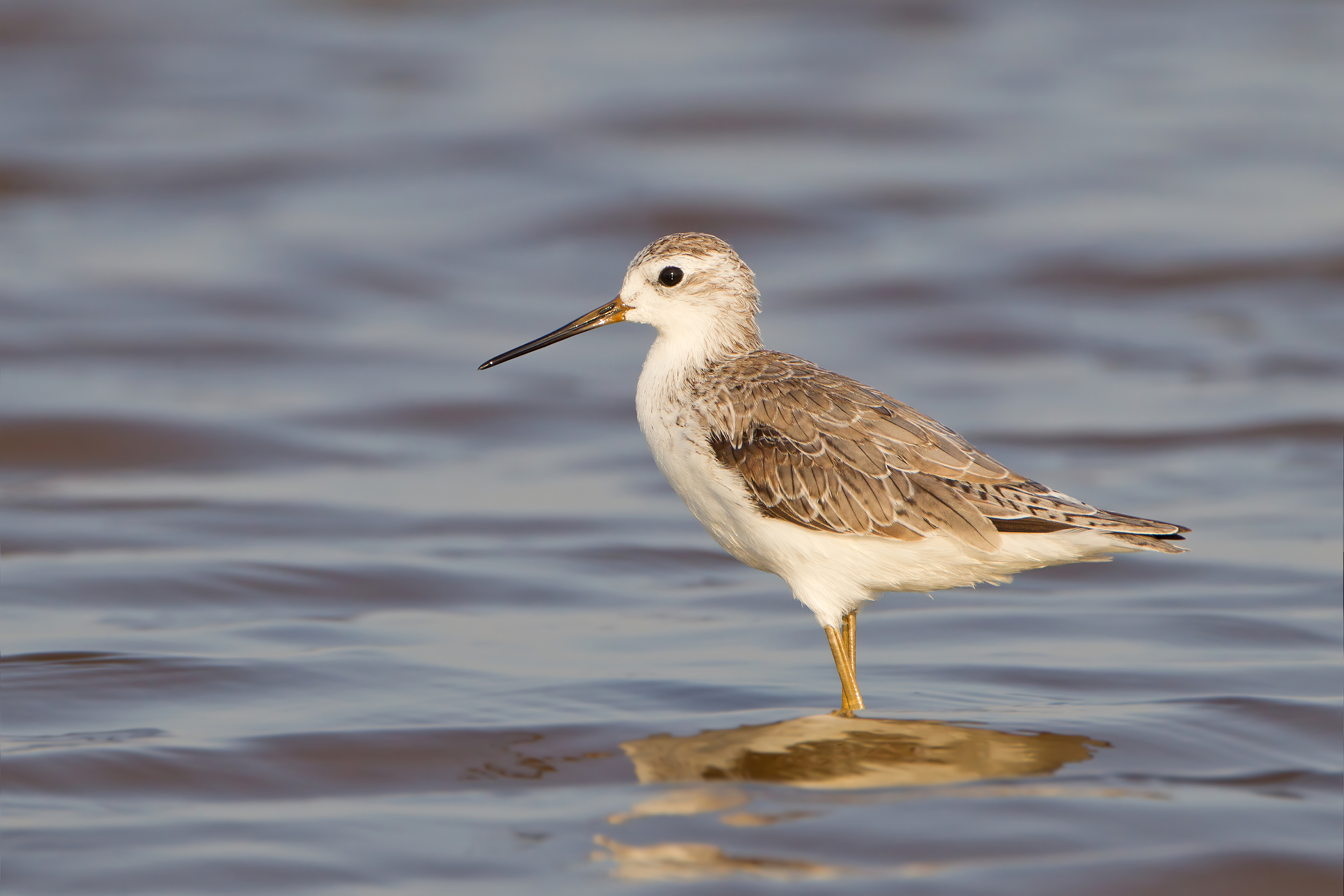 Marsh Sandpiper (Tringa stagnatilis), Laem Pak Bia, Petchaburi, Thailand.